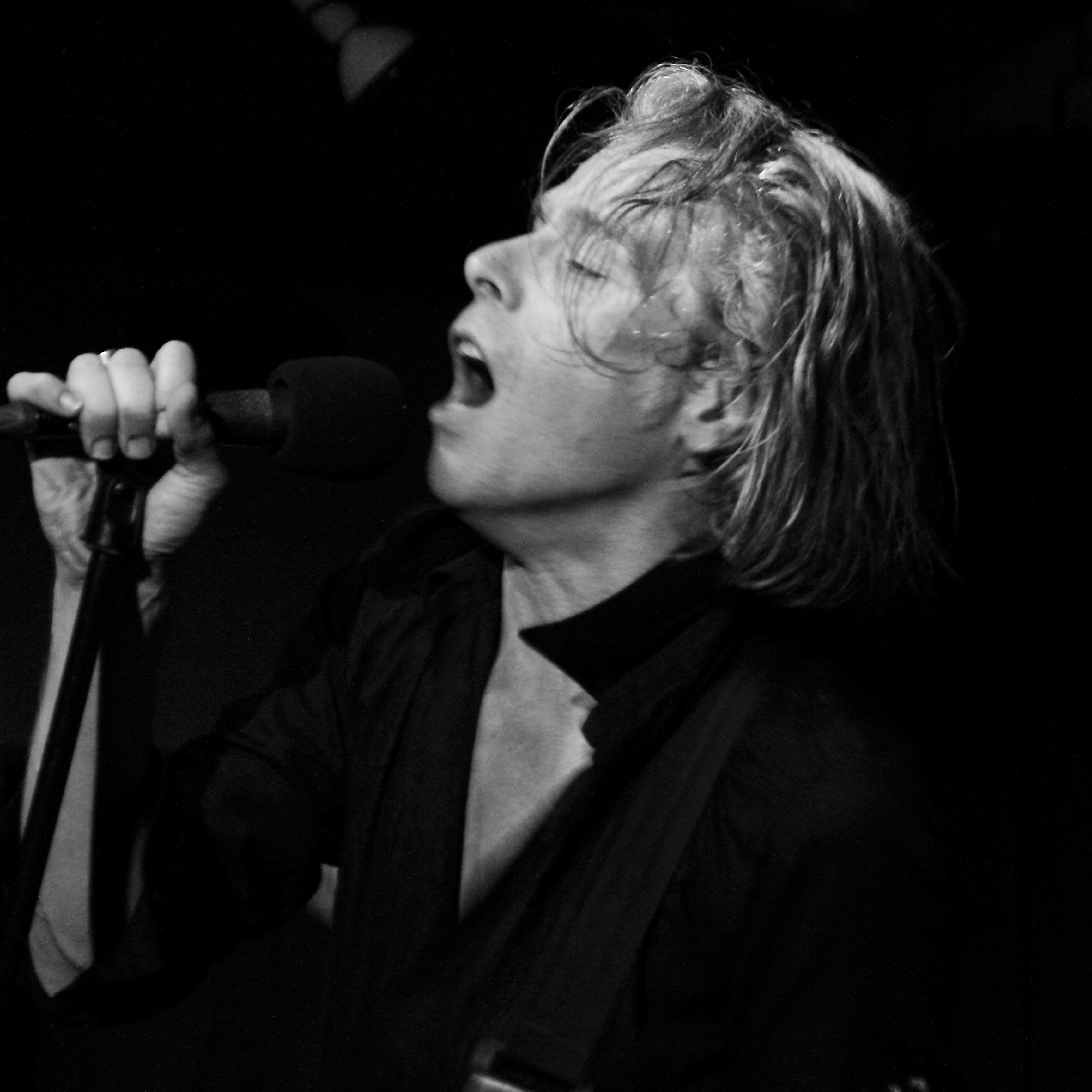 James Johnston and Gallon Drunk at Club W71, 2014.